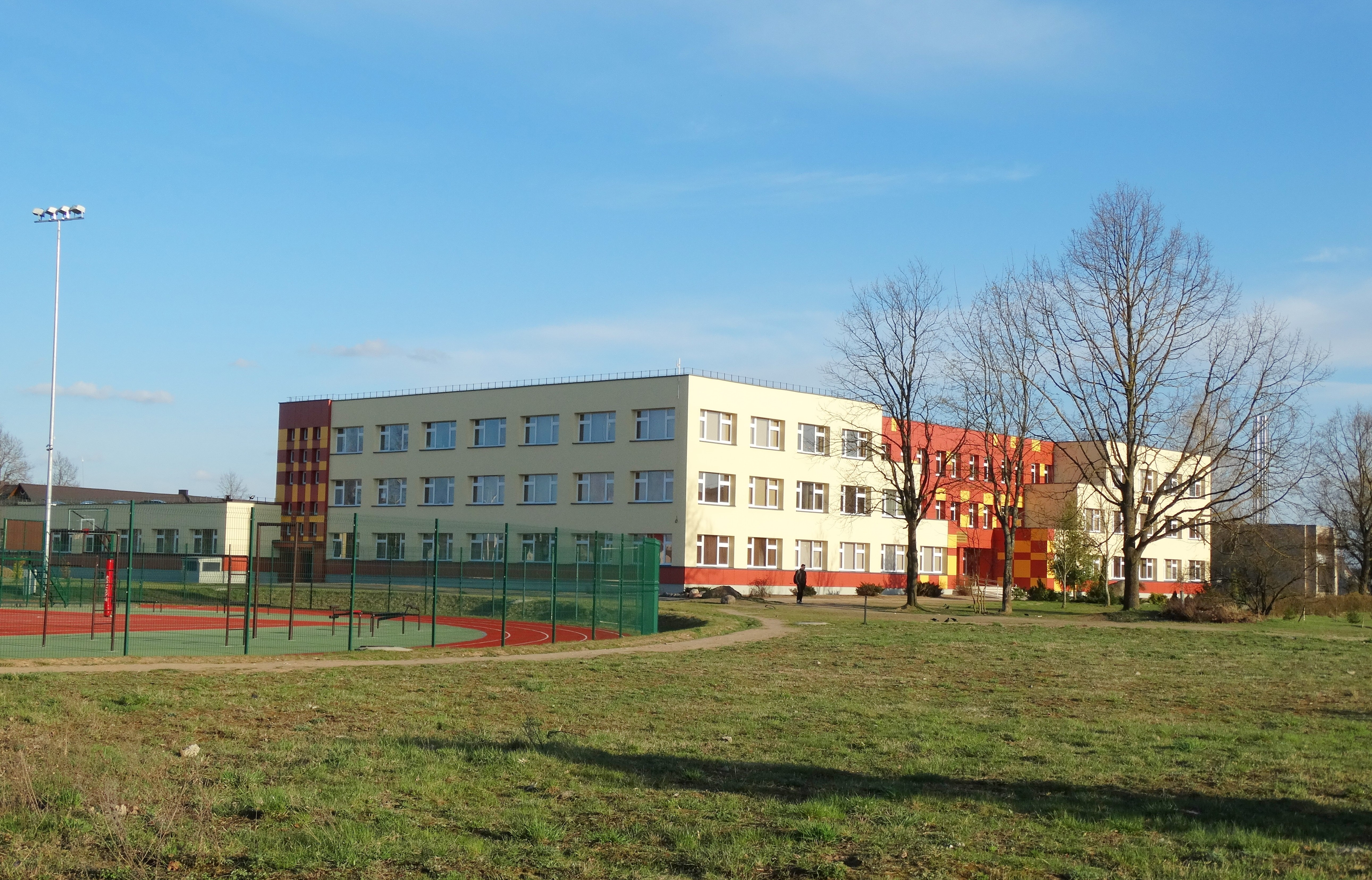 Ferdynand Ruszczyc Gymnasium, Rudamina, Vilnius district, Lithuania